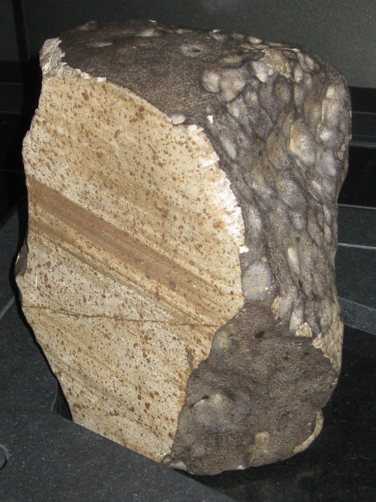 Wold Cottage meteorite. A chondrite which fell near Wold Cottage Farm, near Wold Newton in 1795. On display in the Natural History Museum, London, March 2013.